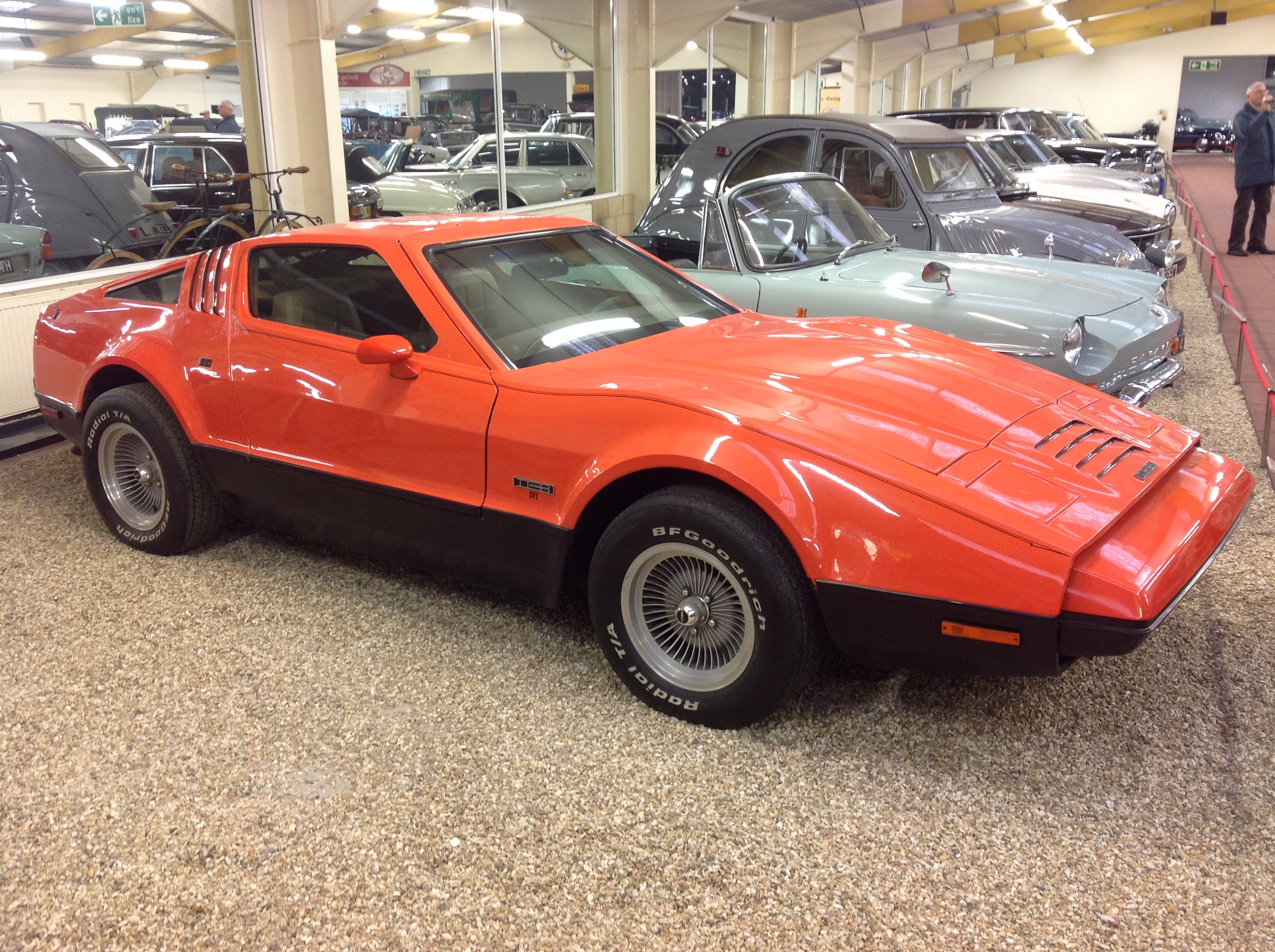 Haynes International Motor Museum, Sparkford, Somerset